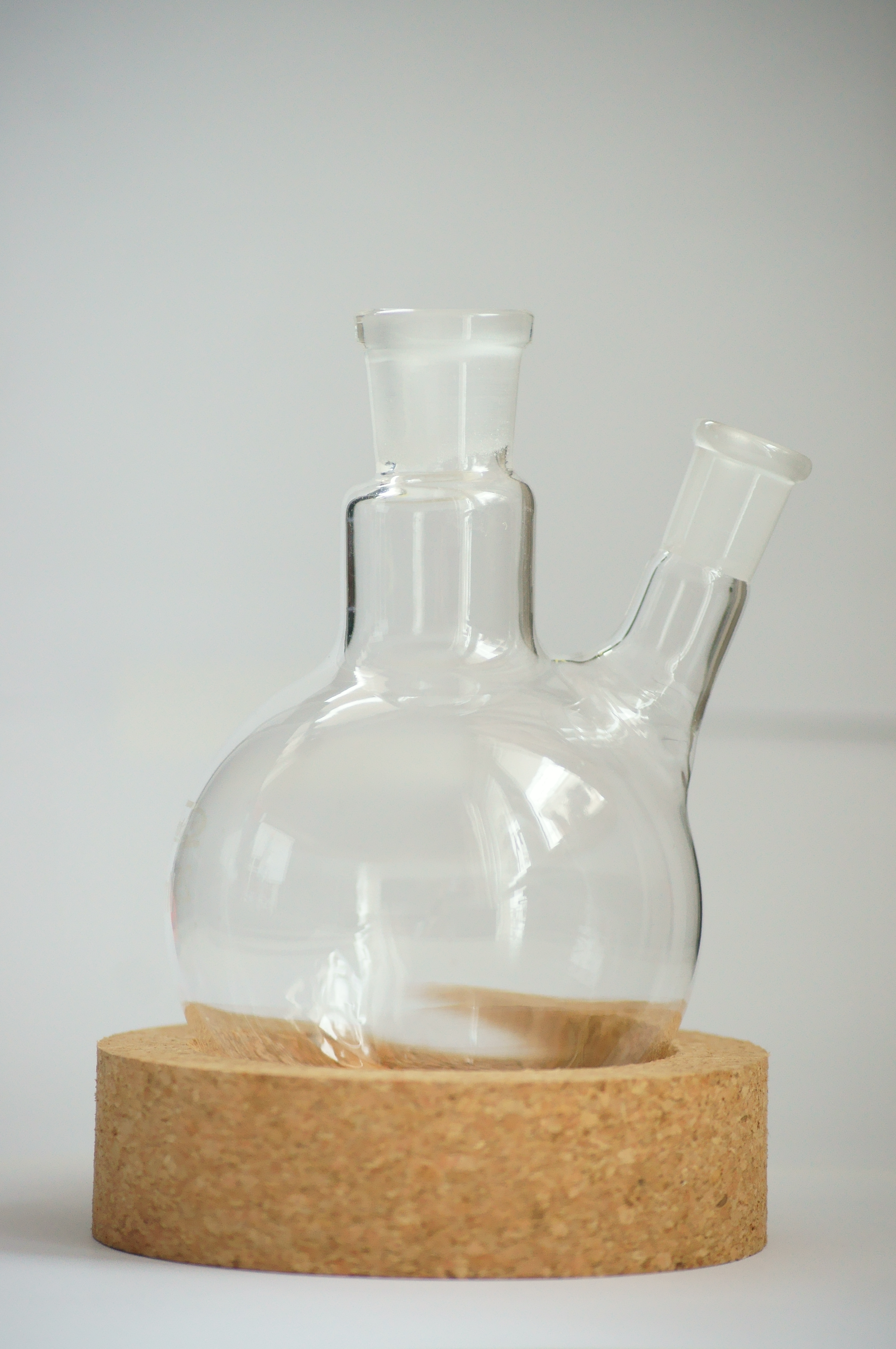 250 mL round bottom flask with 19/22 & 14/23 joints